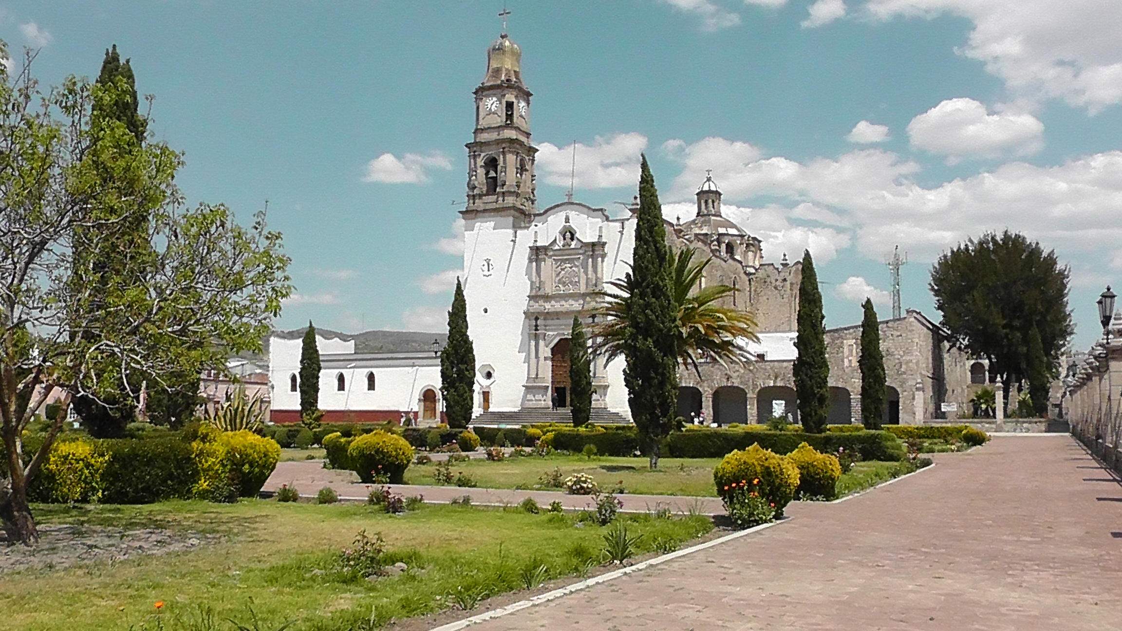 Church of the Assumption (Iglesia de la Asunción) Apan Hidalgo in the Mexican Highland State of Hidalgo